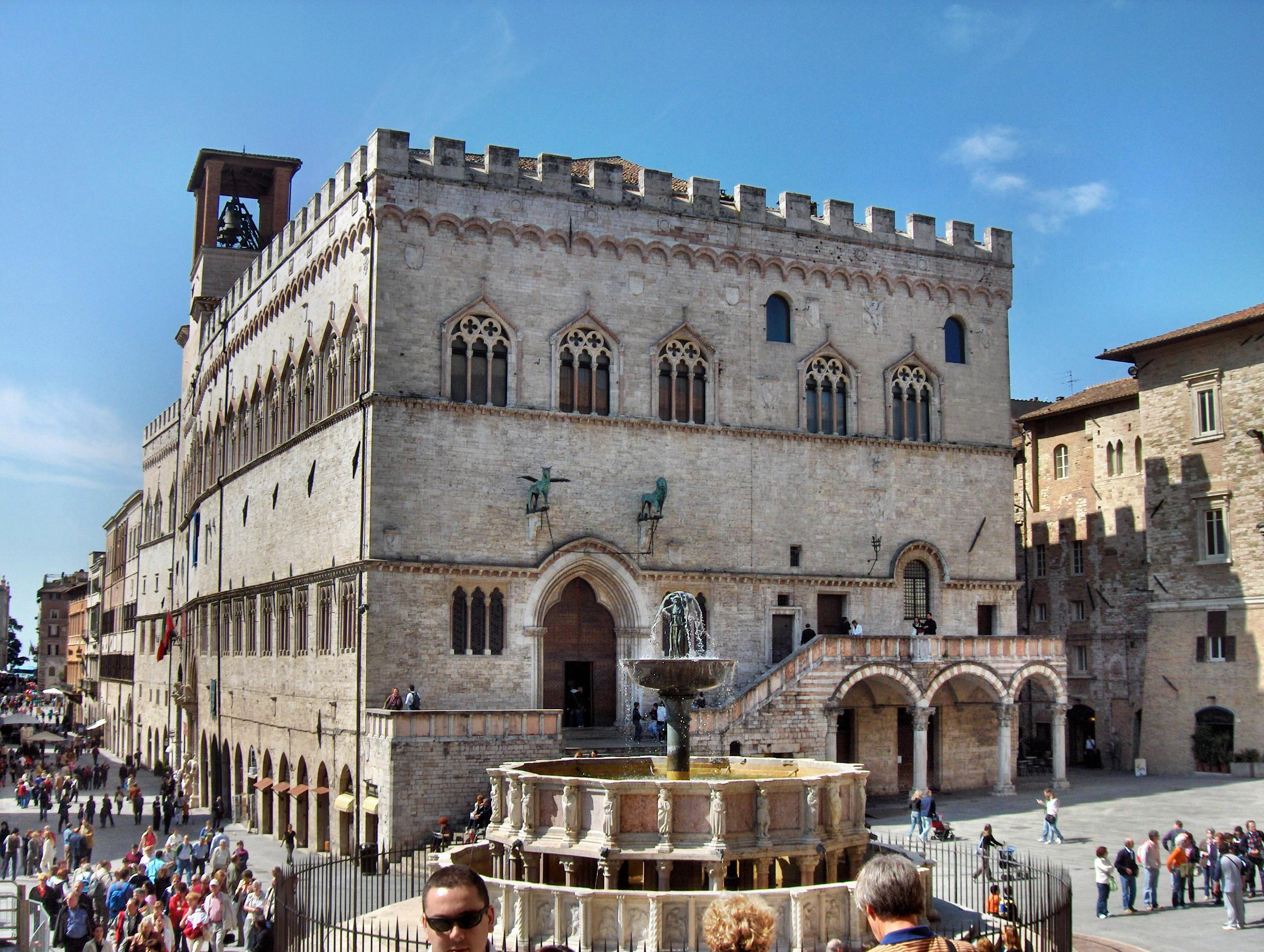 Palazzo dei Priori and the Fontana Maggiore, Perugia, Italy